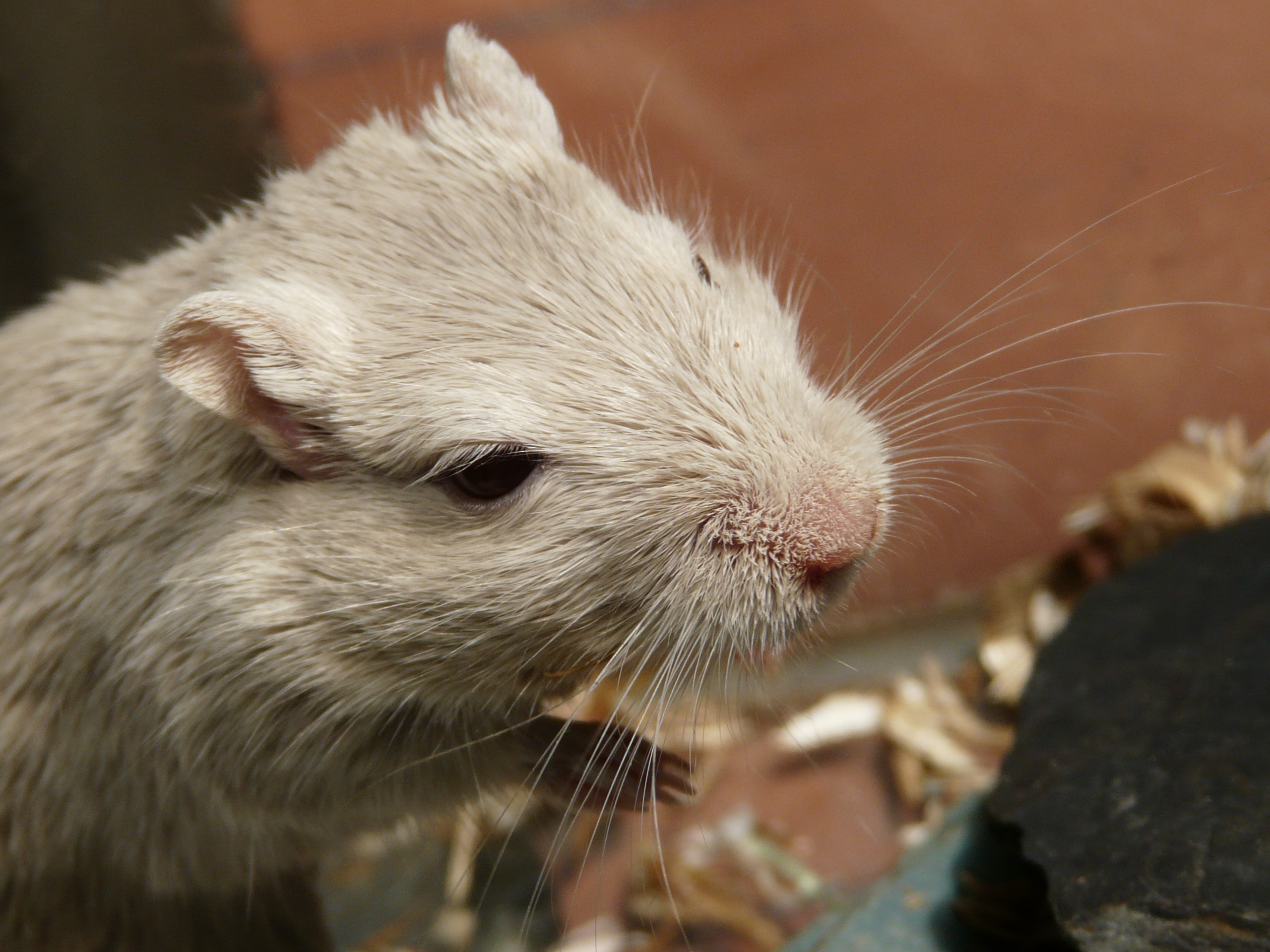 Mongolian_Gerbil, Photograph of my personal pet his name is Snow and has 2 years of age